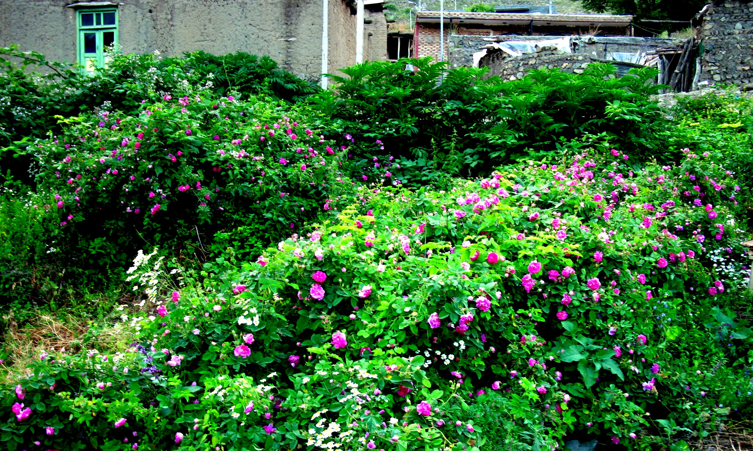 A photo for Abbasabad article